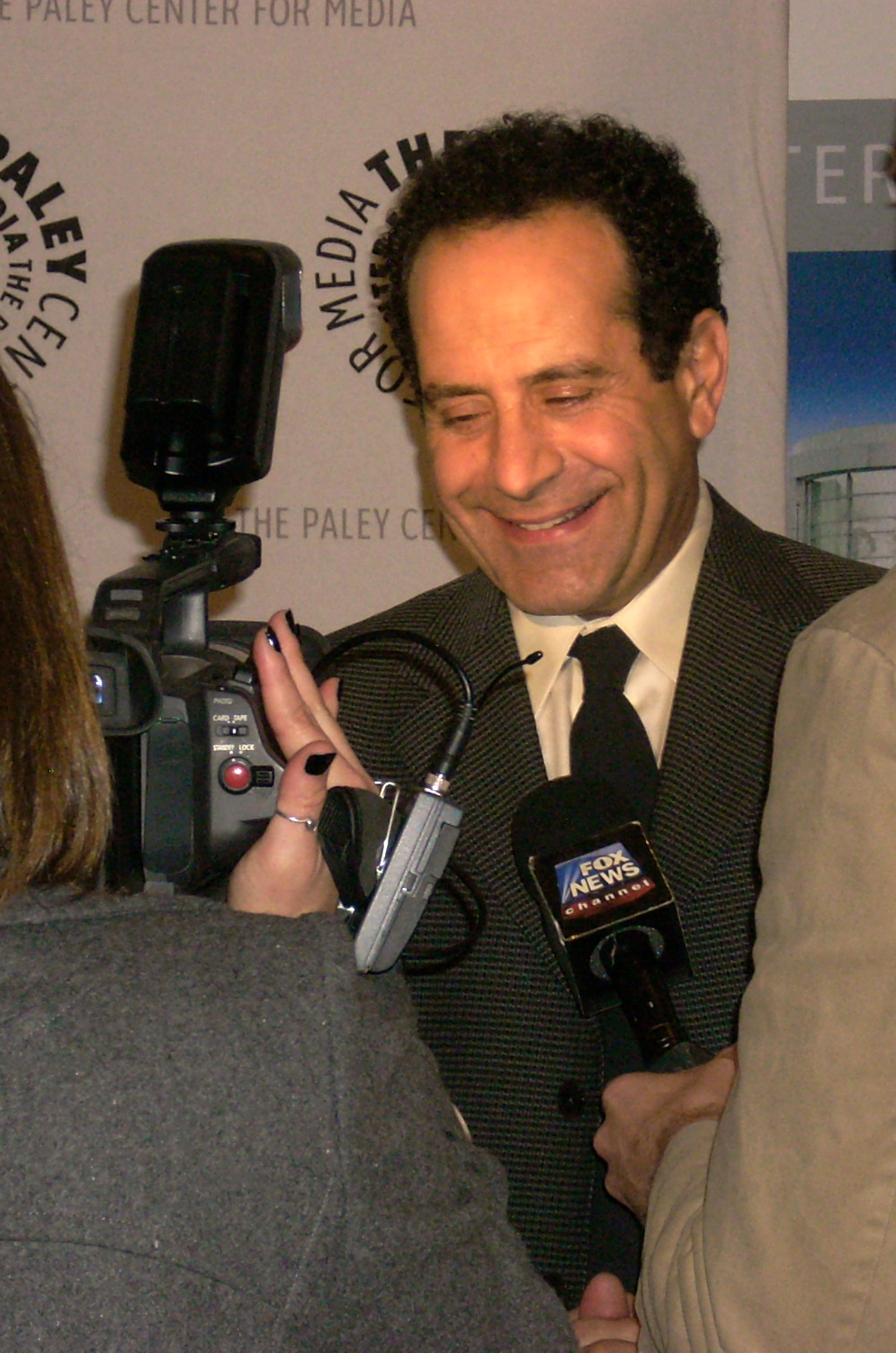 "Monk: 100 Episodes and Counting..." - Paley Center for Media, Dec. 2, 2008